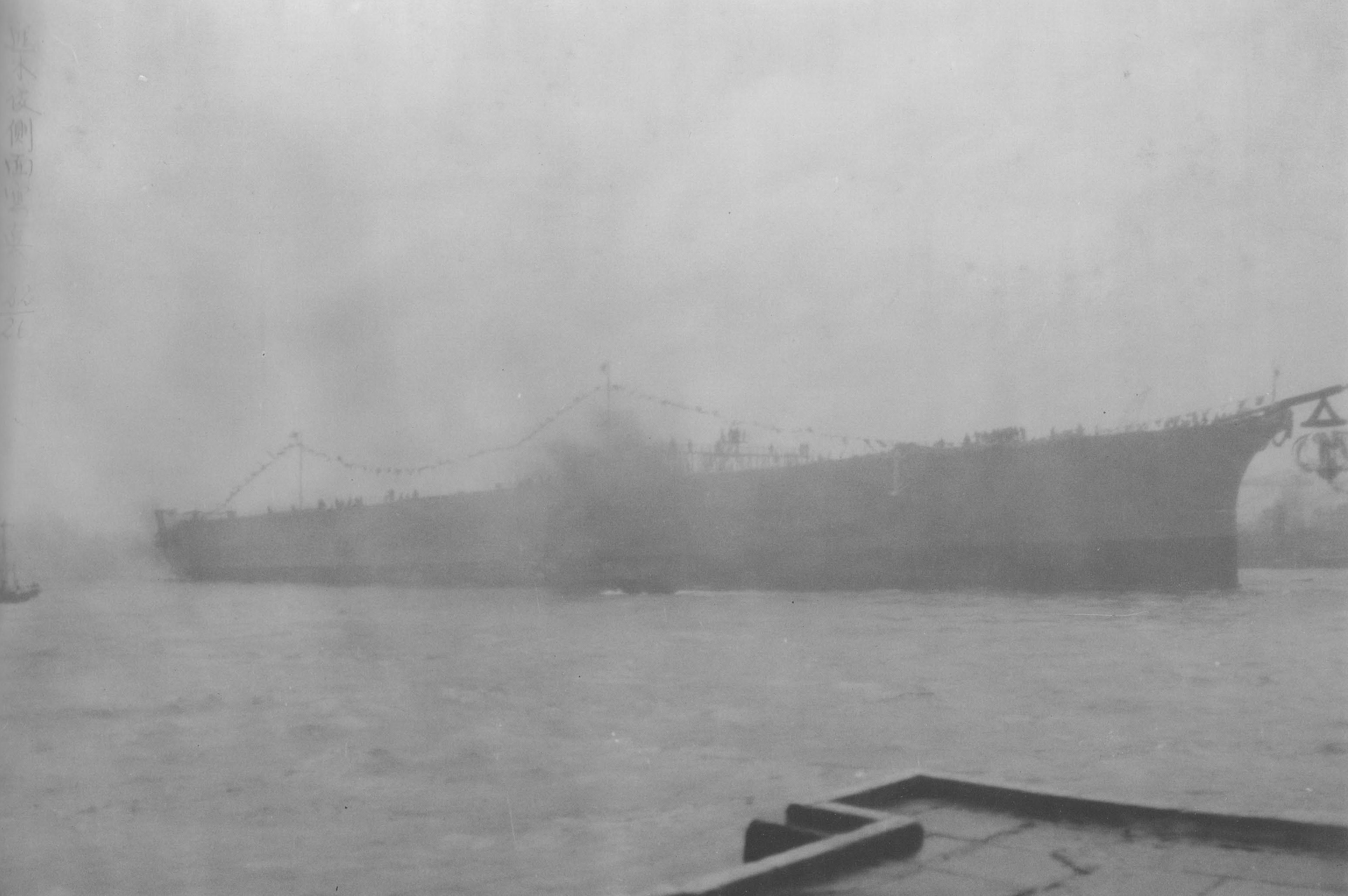 Imperial Japanese Navy aircraft carrier Shōkaku is launched from Yokosuka's second construction slip at 14:30 on June 1, 1939 in a driving rain.